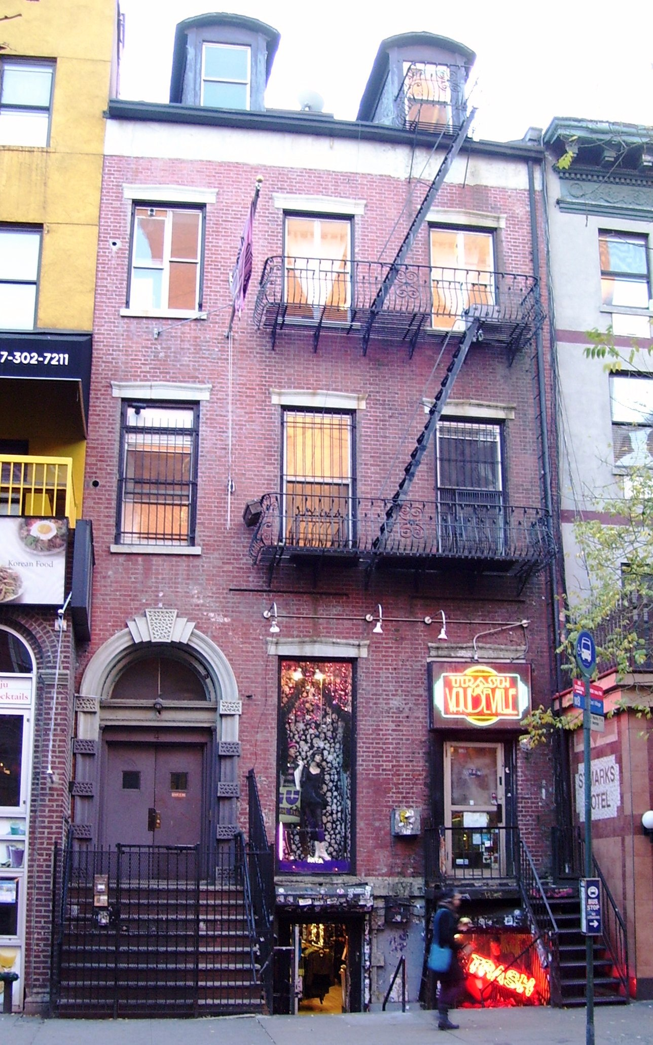 The 1831 Federal-style Hamilton-Holly House at 4 St. Marks Place between Second and Third Avenues, in the East Village neighborhood of Manhattan, New York City, was owned by Col. Alexander Hamilton (son of Alexander Hamilton), who bought it in 1833 from the developer, Thomas E. Davis. It later became a meeting hall and apartments, and home base for experimental theatre companies from 1956 to 1967. It was designated a NYC landmark in 2004. (Source: Guide to NYC Landmarks (4th ed.)) The building has been the location of the "Trash & Vaudeville" clothing store since the early 1970s.